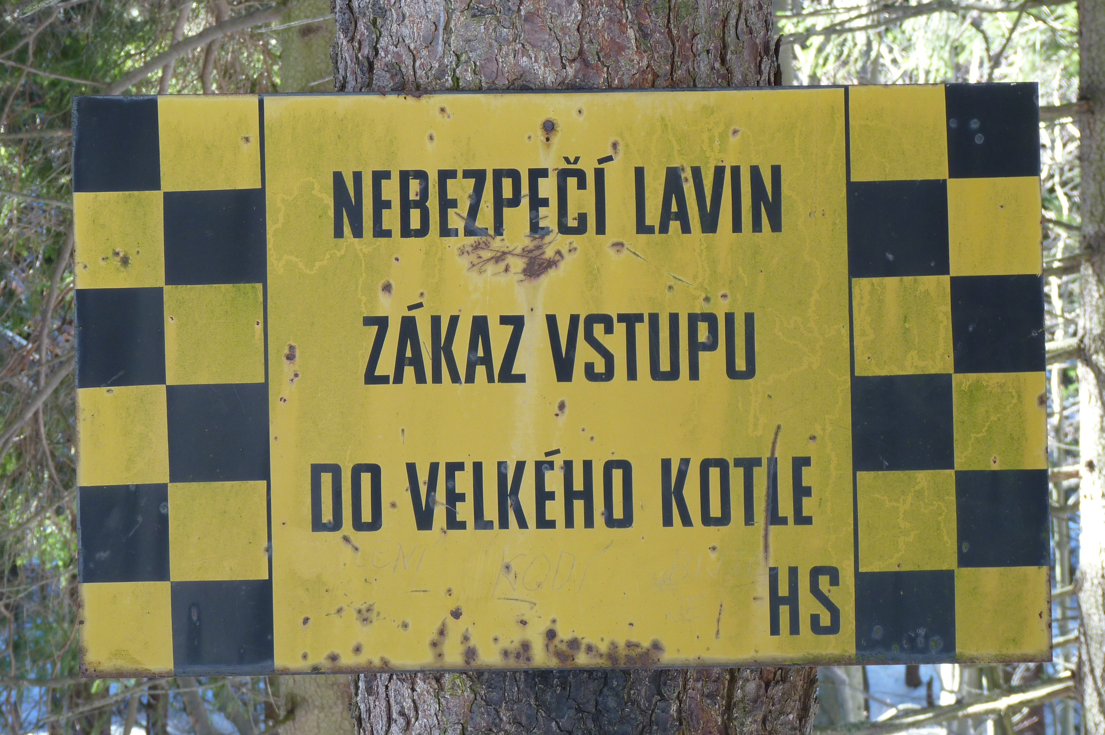 National nature reserve Praděd which lies in three districts: Sumperk, Bruntal and Jesenik. Czech Republic